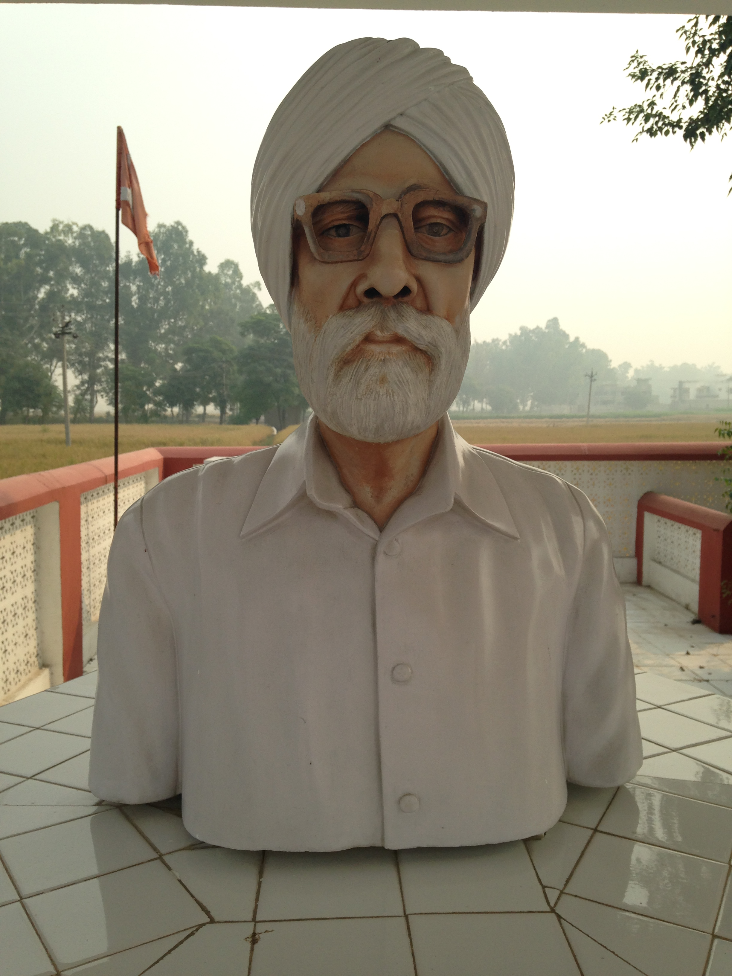 Comrade Ruldu Khan Statue